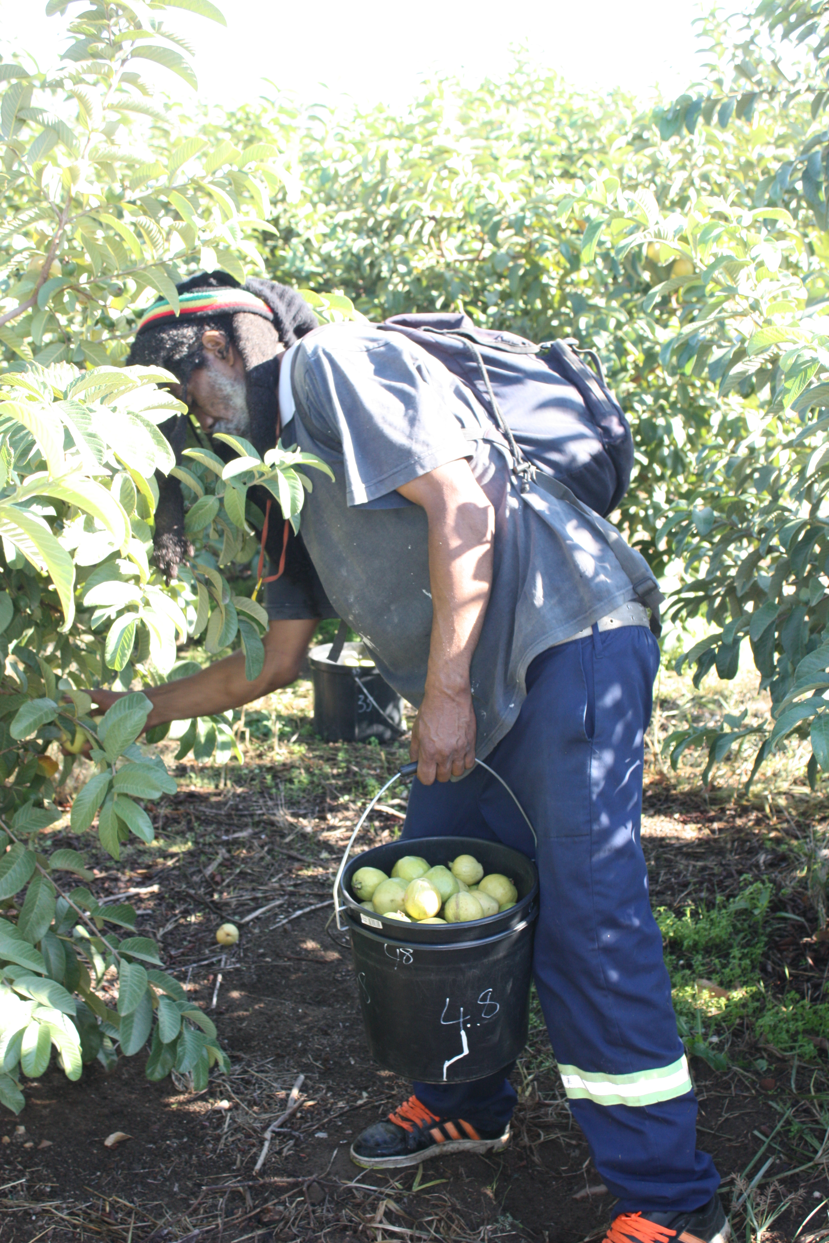 Guava Pickers on a farm in the Paarl valley This is an image of "African people at work" from South Africa